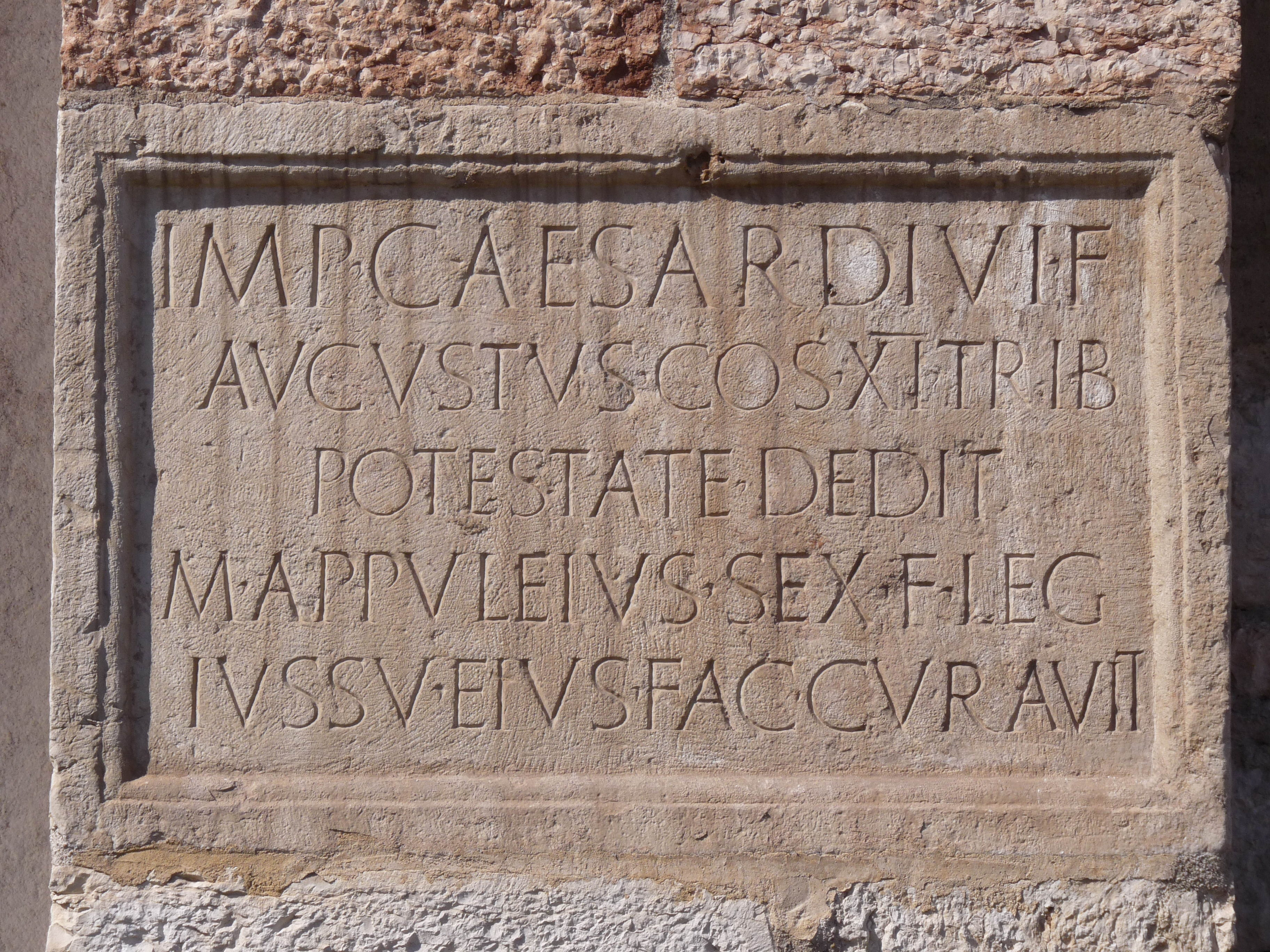 Trento (Italy): latin inscription of Marcus Appuleius (Marco Apuleio), 23 b.C., built in the apse of the Sant'Apollinare church. The inscription says: "IMP[ERATOR] CAESAR DIVI F[ILIUS] AVCUSTUS CO[N]S[UL] XI TRIB[VNICIA] POTESTATE DEDIT M[ARCVS] APPVLEIVS SEX[TI] F[ILIUS] LEG(ATVS) IVSSV EIVS FAC[IVNDVM] CVRAVIT"